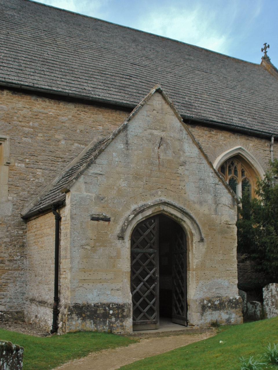 Porch of parish church of St Giles, Bletchingdon, Oxfordshire, seen from the south